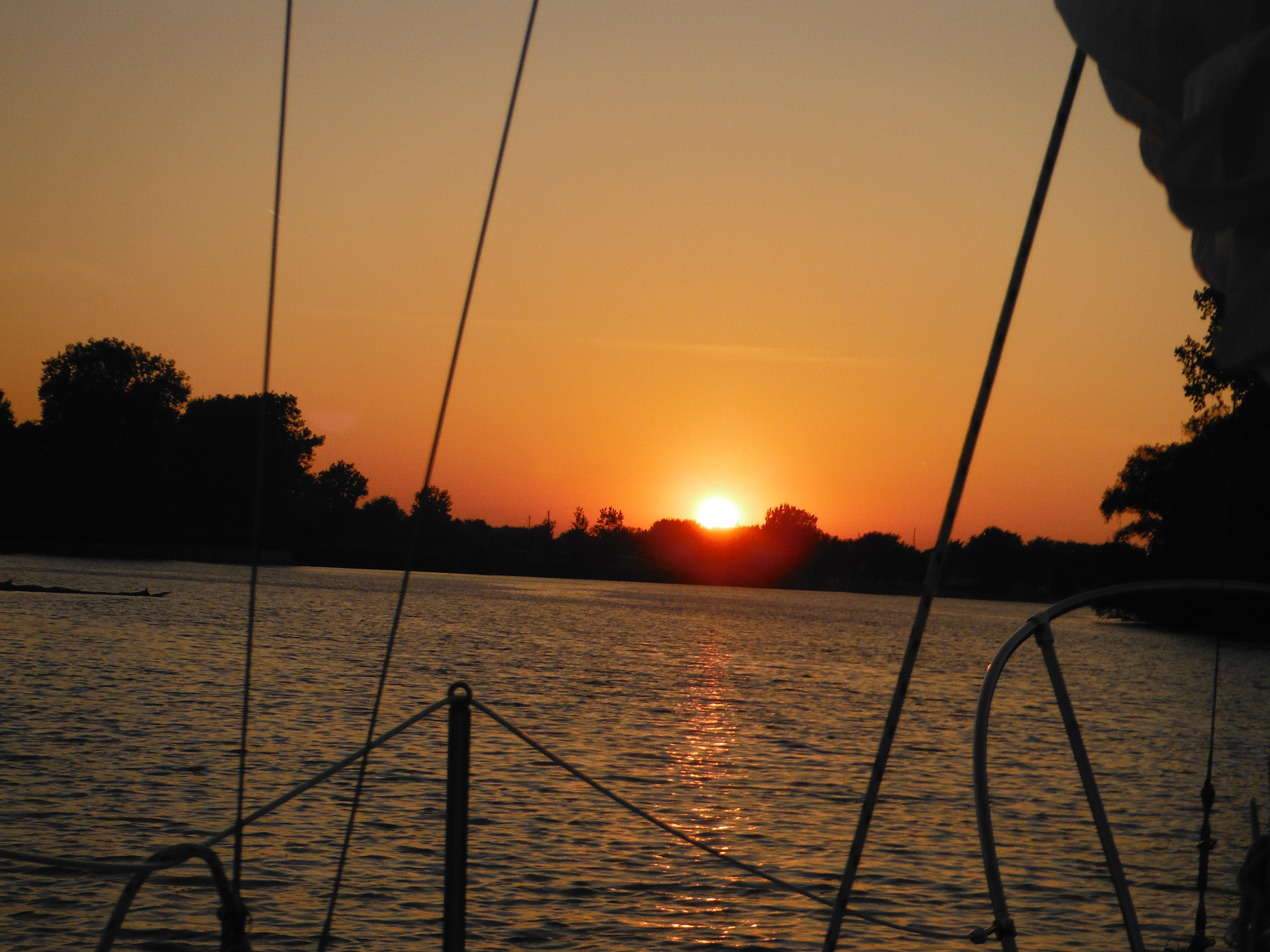 a photo I took while sailing during the summer of 2014;Other information: this is a work of C. J. Shaw 2014-07-19